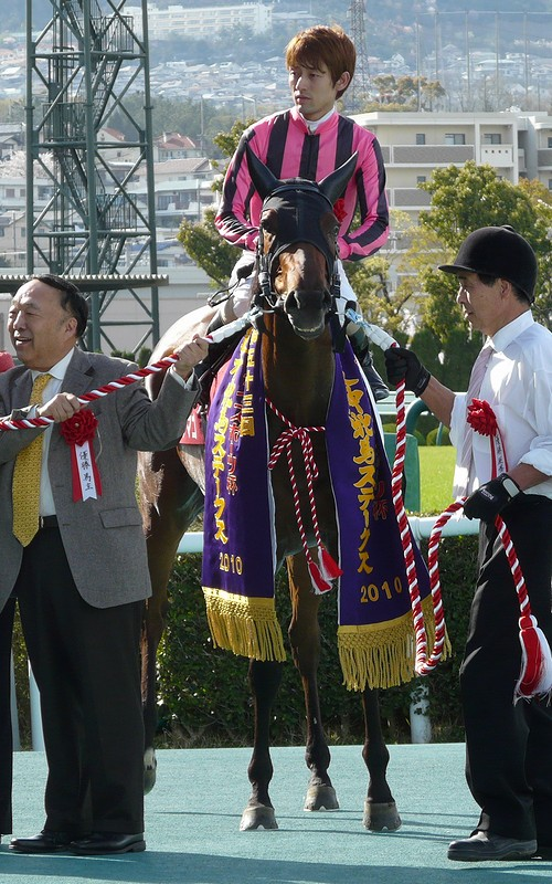 I-am-kamino-mago20100410